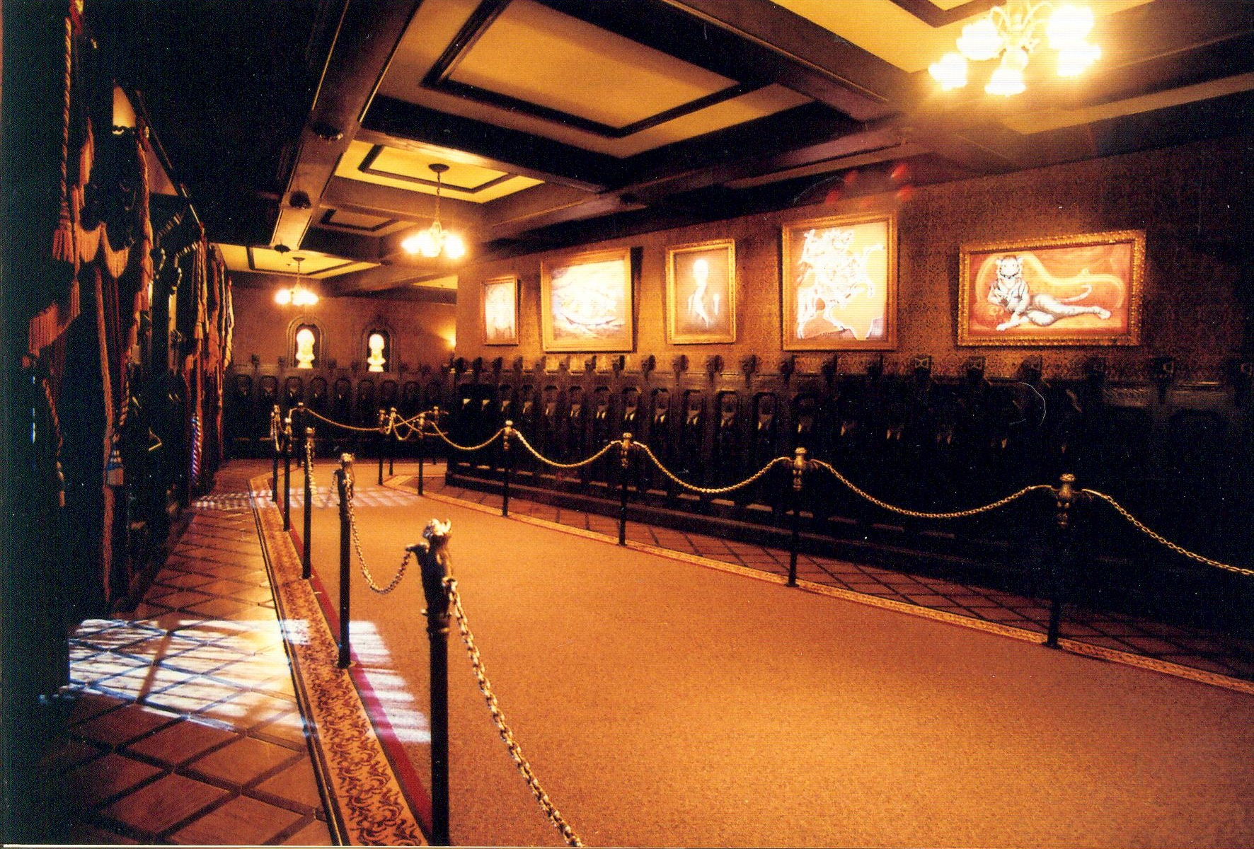 Taken with a 19 millimeter wide angle lens with an 80B filter for 17 minutes at f/3.5 using ASA 200 film.